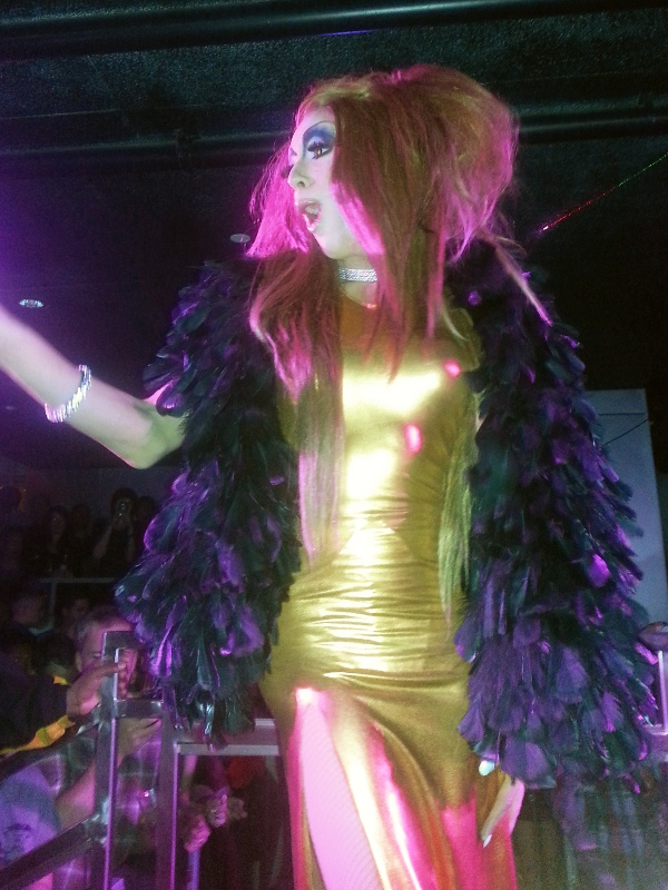 Alaska Thunderfuck 5000 performing "Hero" by Mariah Carey at The Café in San Francisco, California, United States.